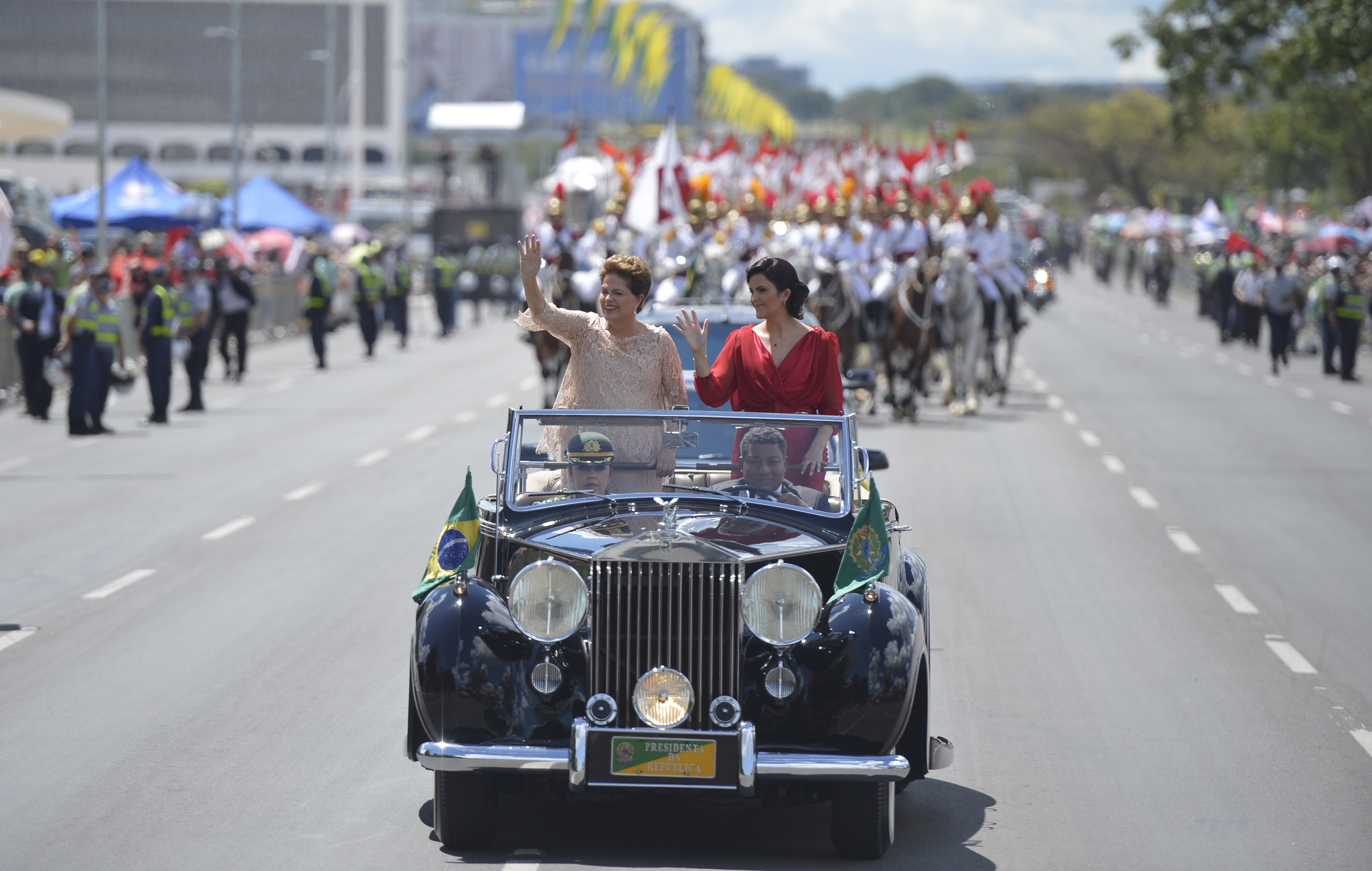 A presidenta Dilma Rousseff durante desfile em carro aberto entre a Catedral Metropolitana de Brasília e o Congresso Nacional (Marcelo Camargo/Agência Brasil)